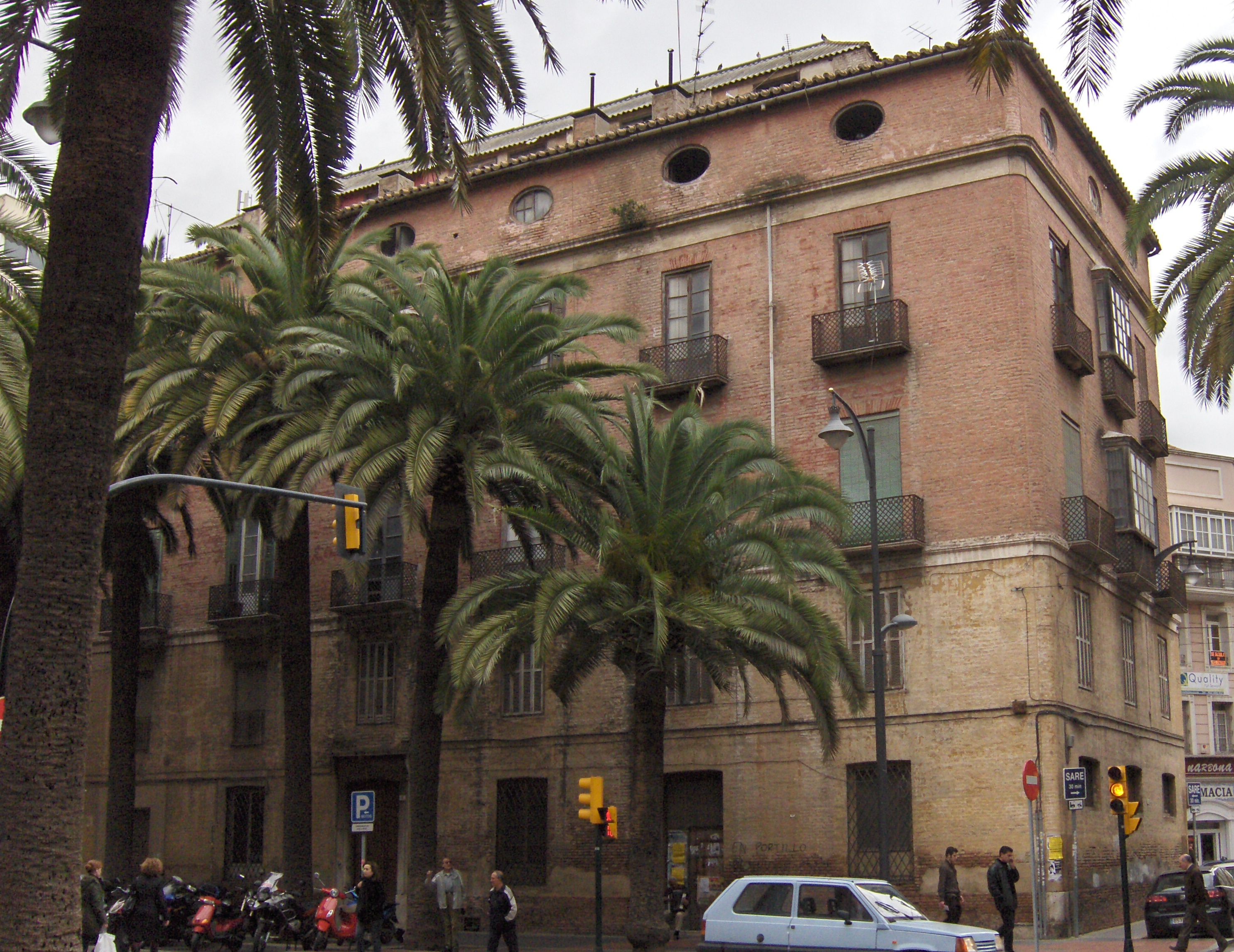 Building in no. 5 Alameda de Colón, Málaga (1861). Architect. Cirilo Salinas